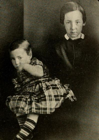 Photograph of Louis McLane Hamilton (1844-1868) & Allen McLane Hamilton (1848-1919), 1851